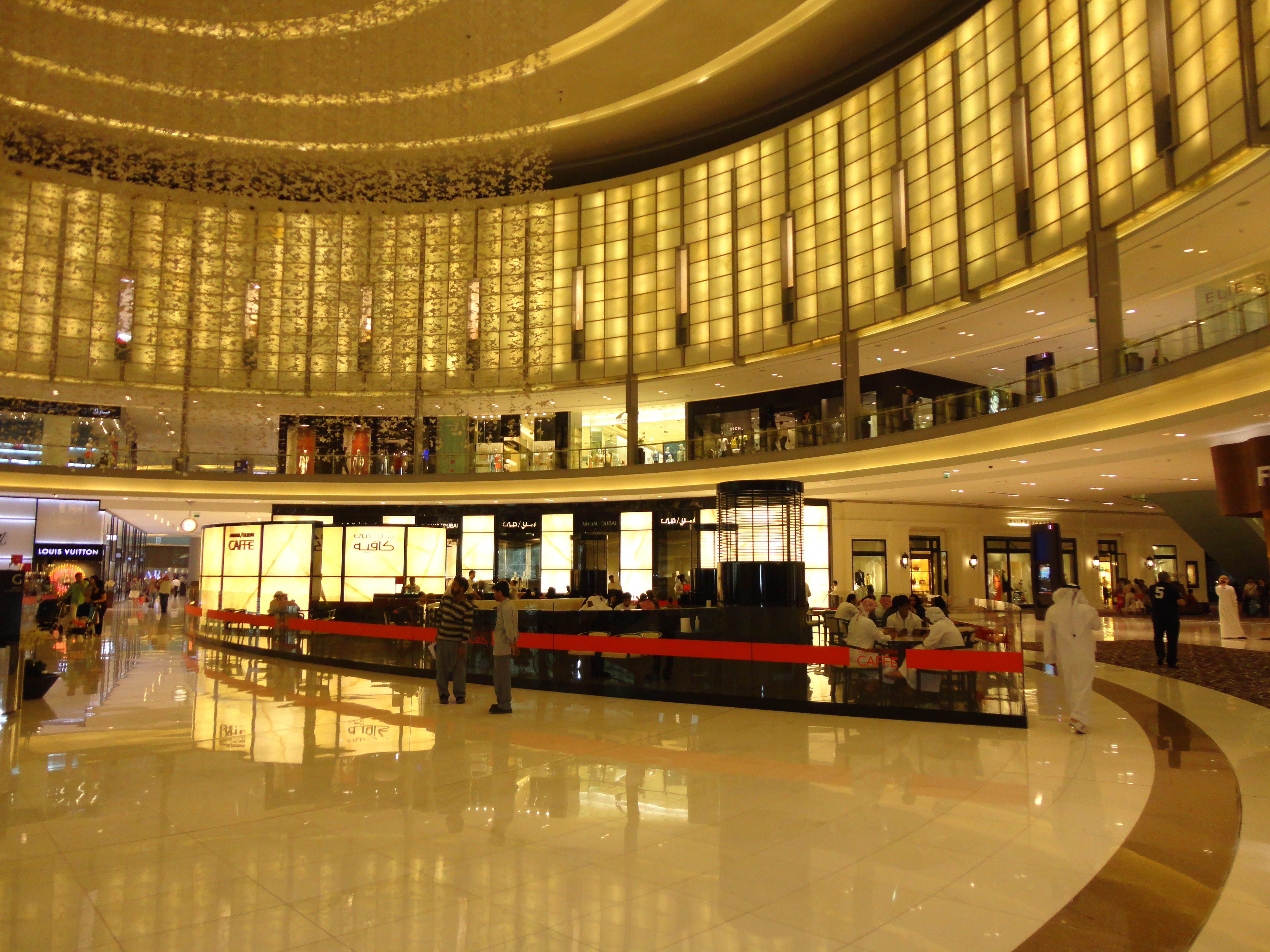 OVER 70 FLAGSHIP STORES FROM THE WORLD MOST DESIRABLE LUXURY BRANDS